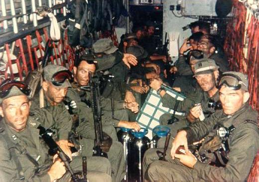 Son Tay raiders in one of the helicopters used for the raid